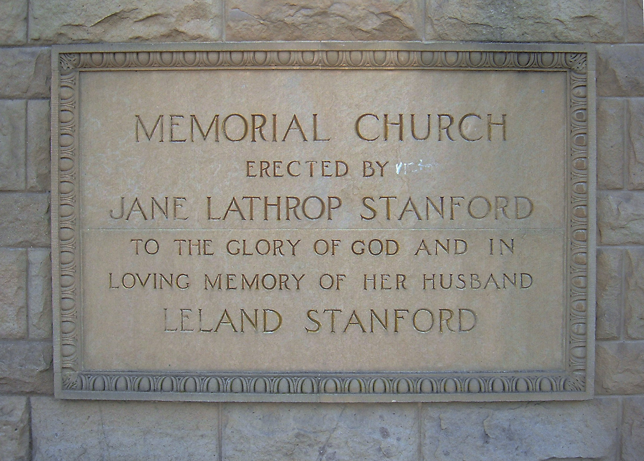 Dedication inscription outside Stanford Memorial Church on the Stanford University campus in Stanford, California.